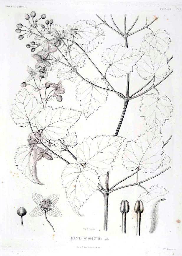 Clematis incisodentata A.Rich. is a synonym of Clematis hirsuta Guill. & Perr.